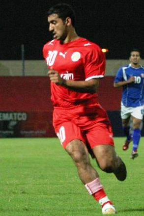 A'ala Hubail is a Bahraini footballer who plays as a striker for Bahrain.